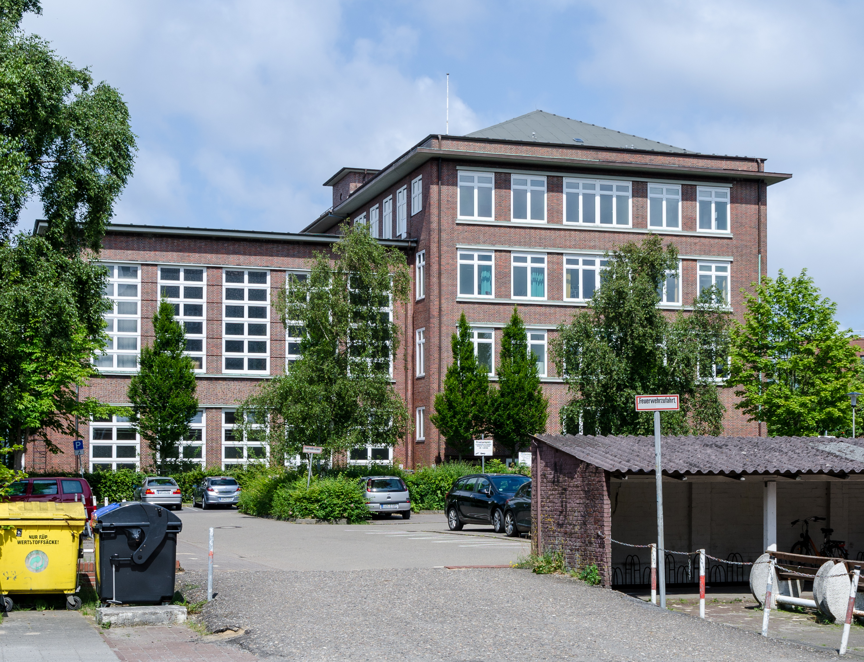 Grammar school Amandus-Abendroth in Cuxhaven